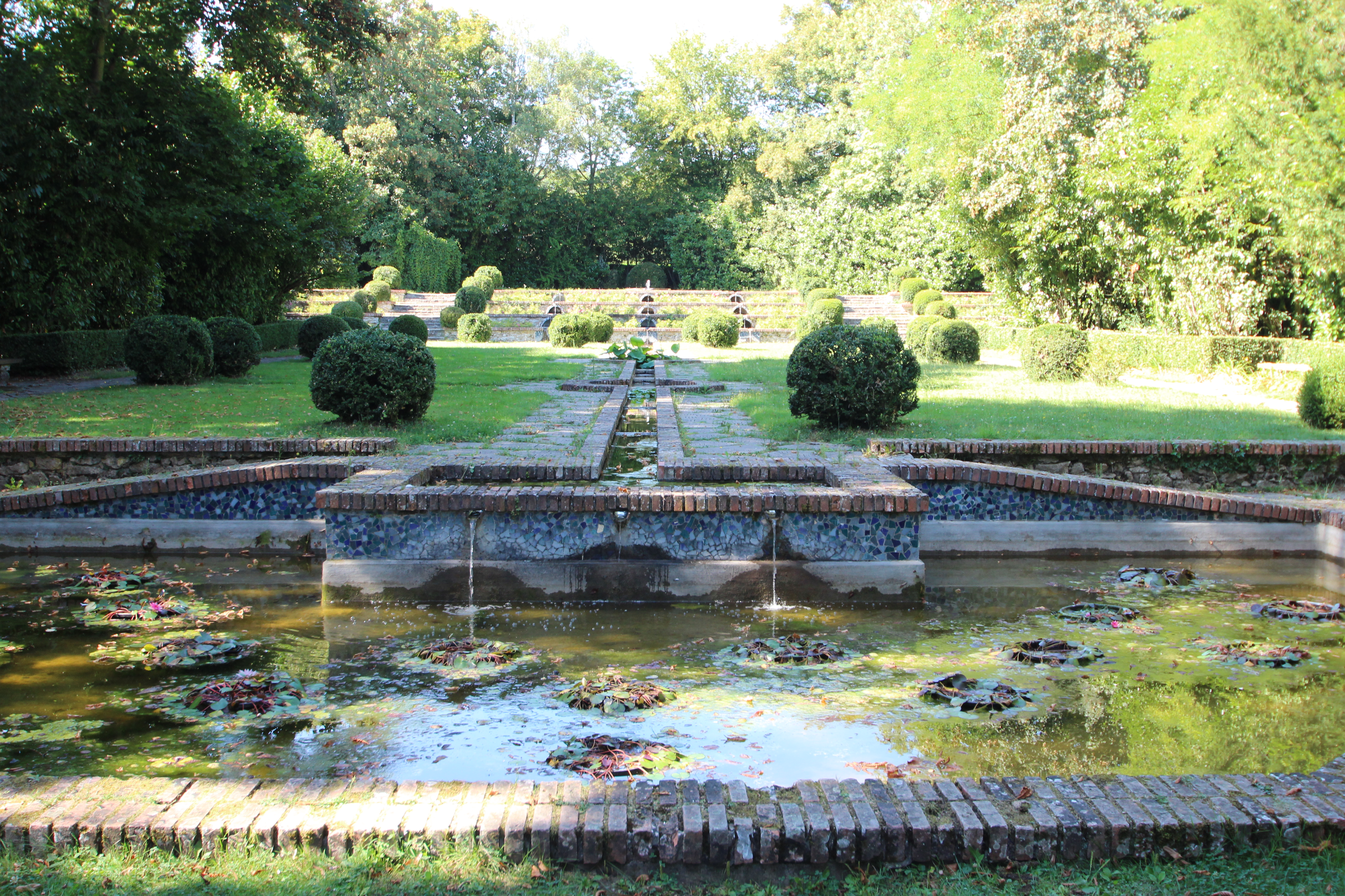 Jacques-Boussard park in Lardy, France.